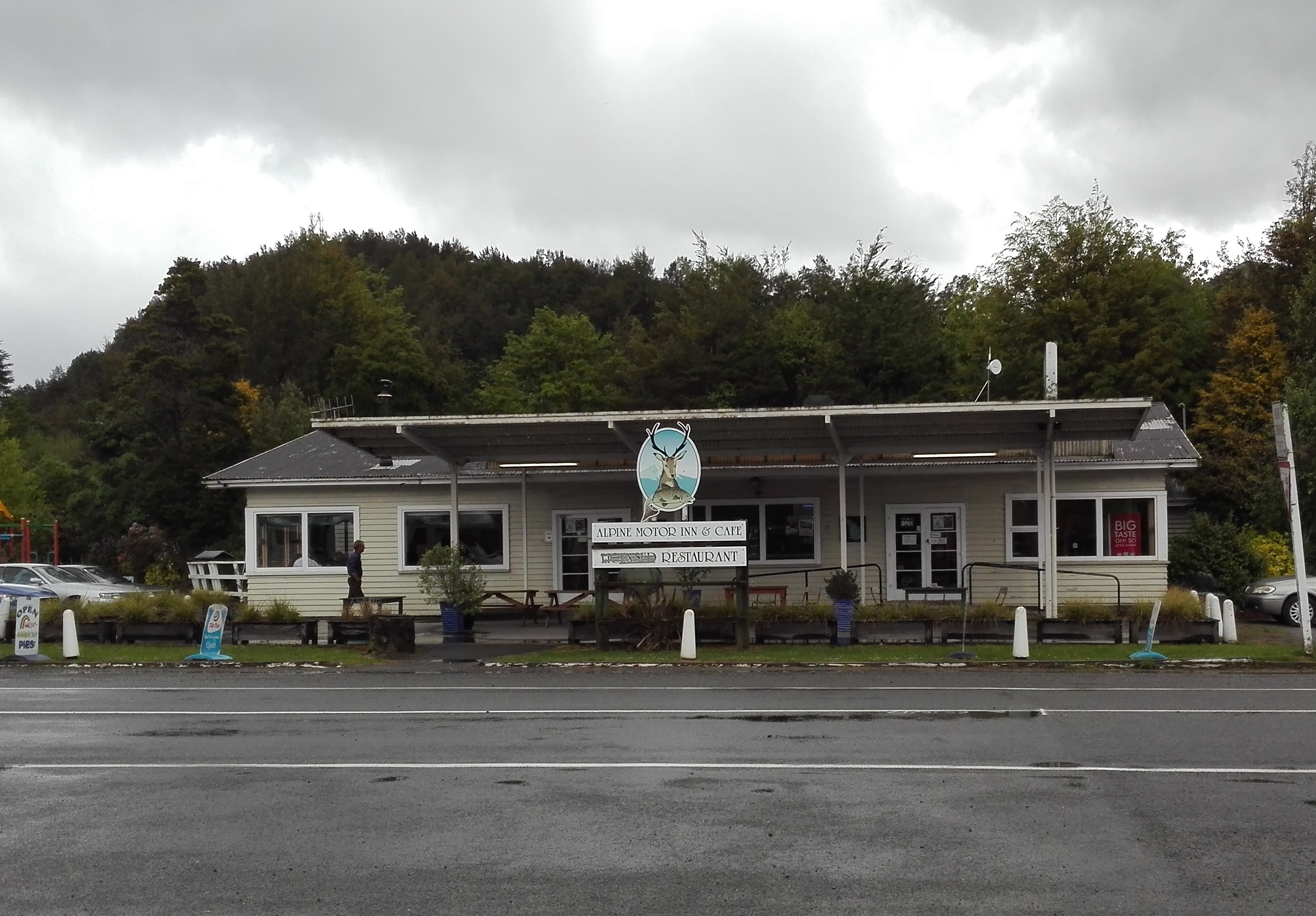 The café at Springs Junction, South Island, New Zealand